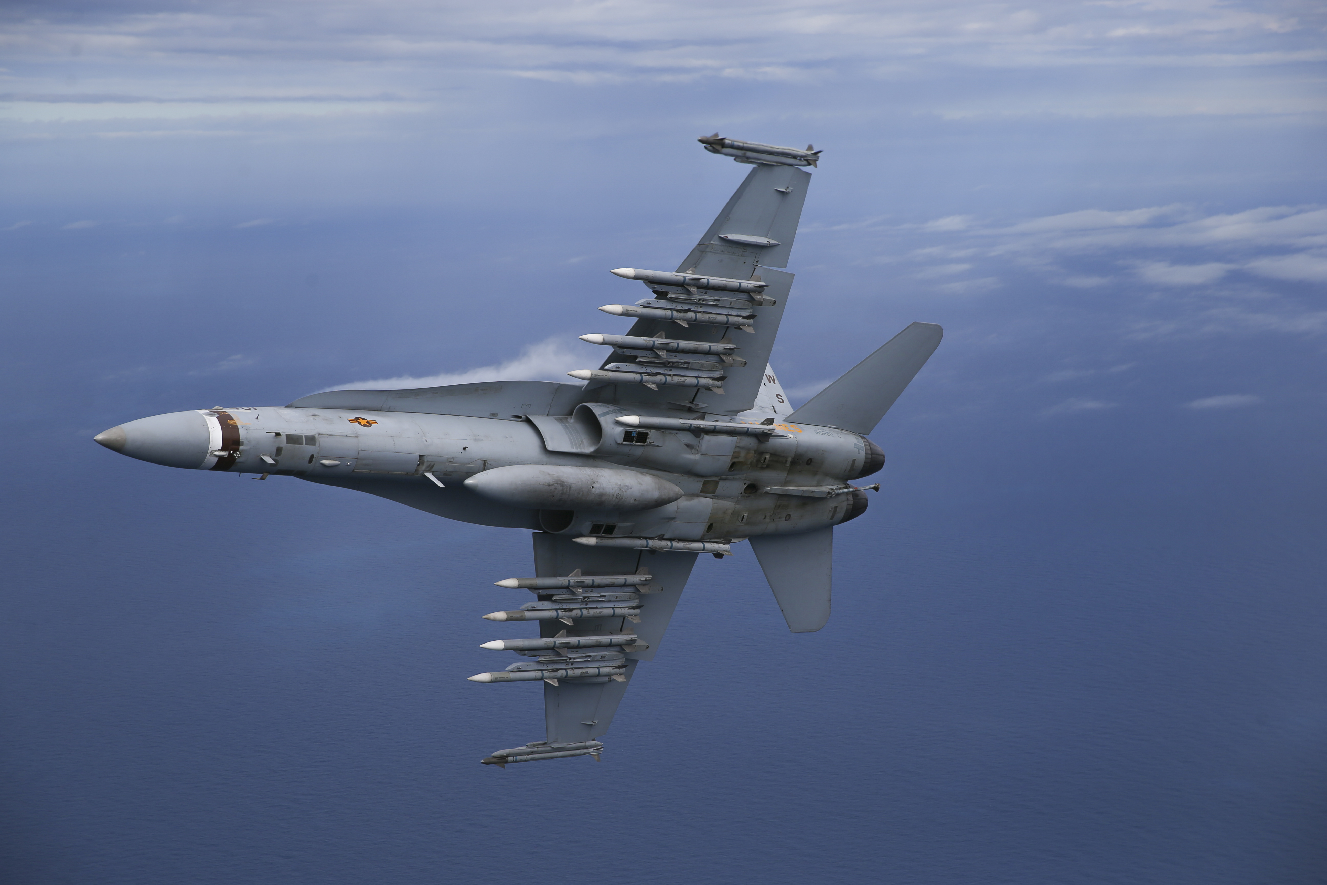 A U.S. Marine Corps McDonnell Douglas F/A-18C Block 51 Hornet (BuNo 165220) assigned to Marine Fighter Attack Squadron 323 (VMFA-323) "Death Rattlers" prepares for a simulated combat mission over the Pacific Ocean in the W-291 training area off the coast of Southern California (USA) on 6 March 2019. It is armed with ten AIM-120 AMRAAM and two AIM-9X Sidewinder missiles.